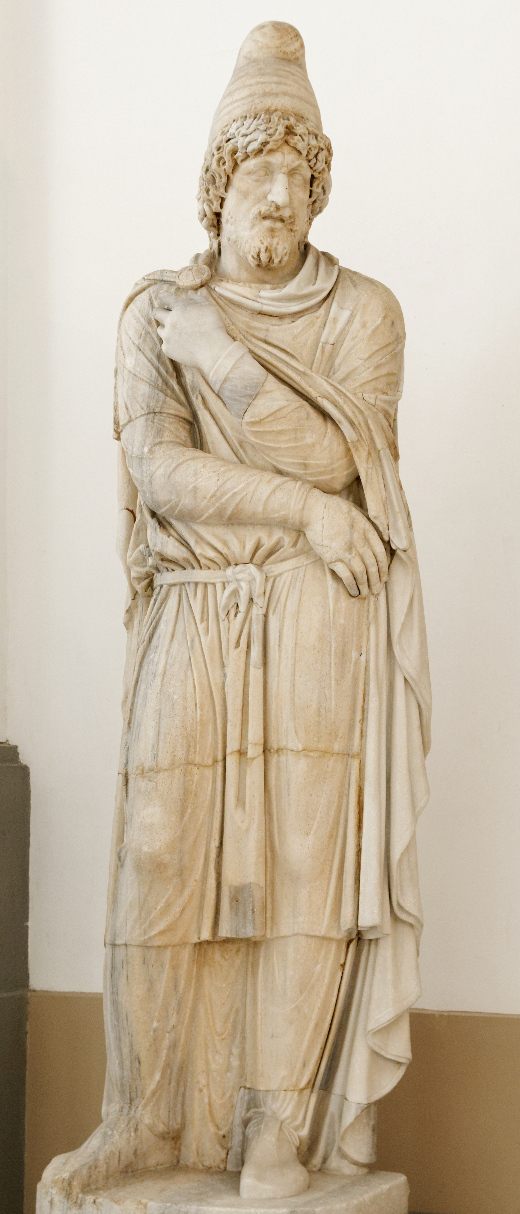 Barbarian, so-called Dacian prisoner, Roman artwork.